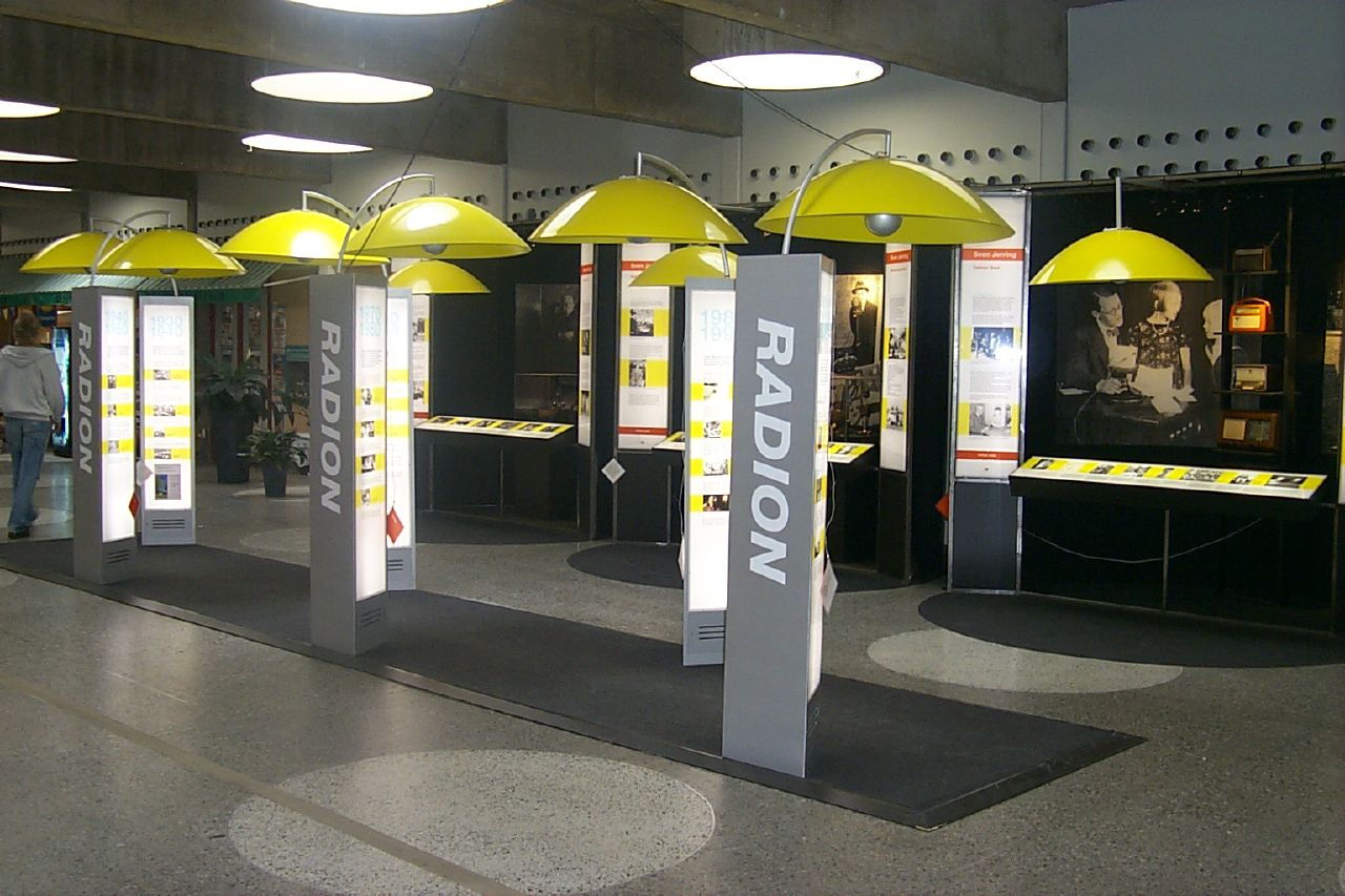 An exhibition with pictures and sounds of public radio from past to present. The yellow 'lampshades' are listening posts, with sound directed down like a shower!